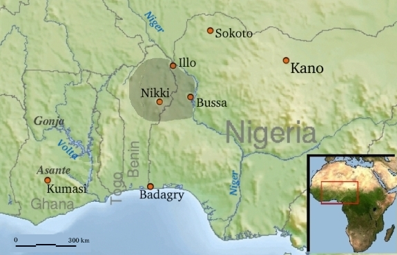 Map Borgu in W-Africa, w/ scale